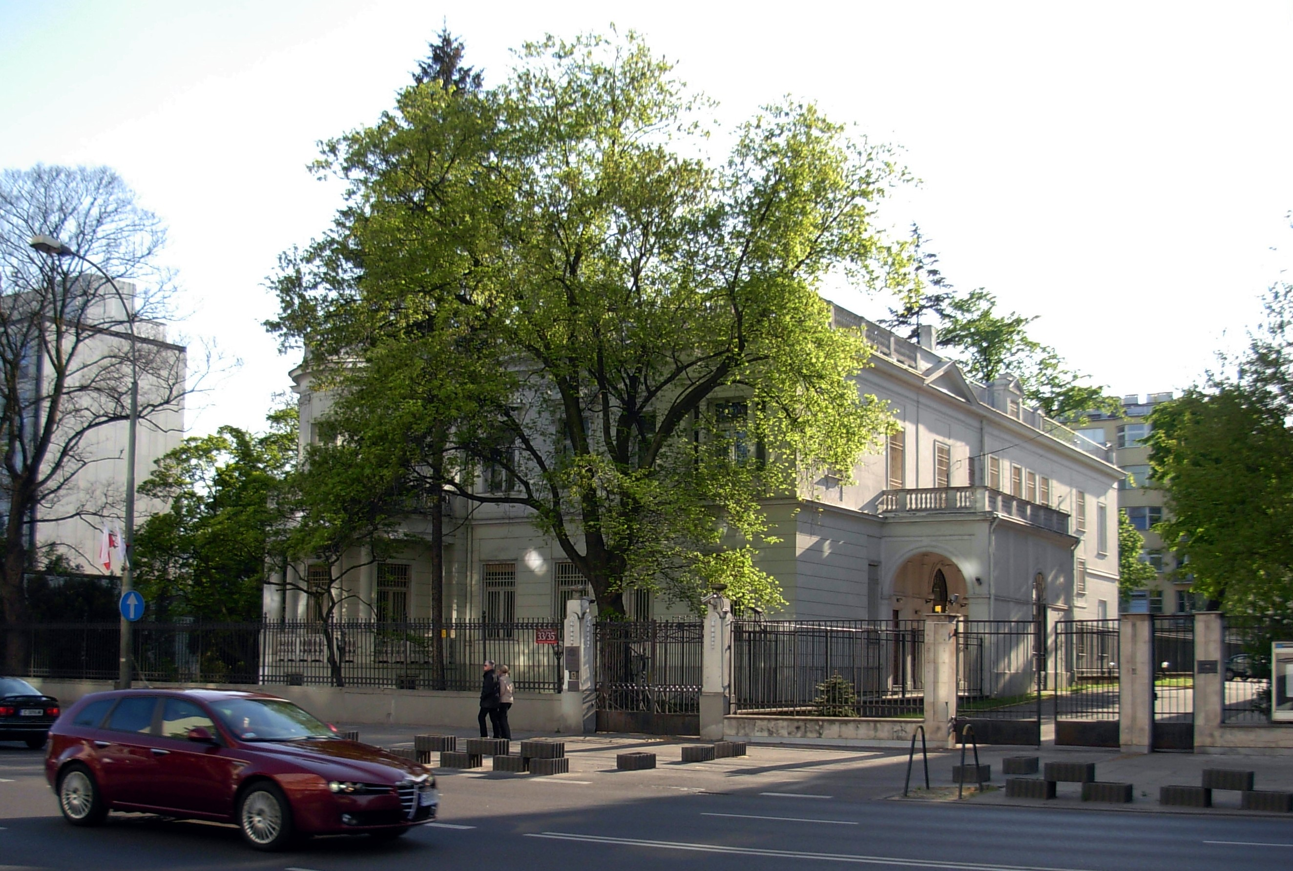 Bulgarian Ambassador's Residence in Warsaw